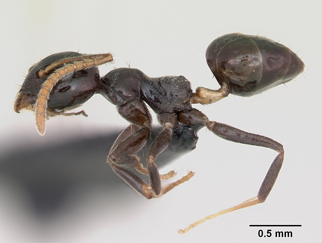 Profile view of ant Axinidris murielae specimen casent0093118.